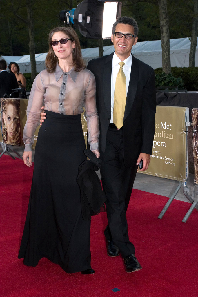 John Turturro and his wife Katherine Borowitz